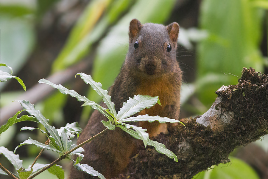 The species Orange-bellied Himalayan Squirrel has been photographed at Khangchendzonga Biosphere Reserve situated in West Sikkim, India during GoingWild's wildlife photography field trip on 25.10.2015.